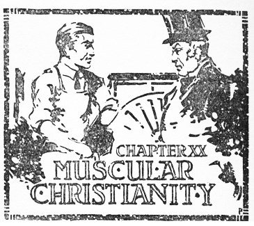 Illustration for Chapter 20 of Hepsey Burke, by Frank N. Westcott, 1915, available from Gutenberg. The good-hearted, wise, and physically strong Episcopal rector Donald Maxwell (left) can hardly collect any of his pay because of interference from his church's Senior Warden, Sylvester Bascom (right), so Maxwell has turned to shoveling stone to support himself and his wife. Here he and Bascom confront each other.